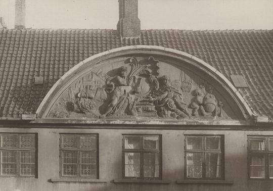 The rounded pediment on the facade of Strandgade 24 in Christianshavn, Copenhagen, Denmark